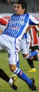 Leonado Sigali.